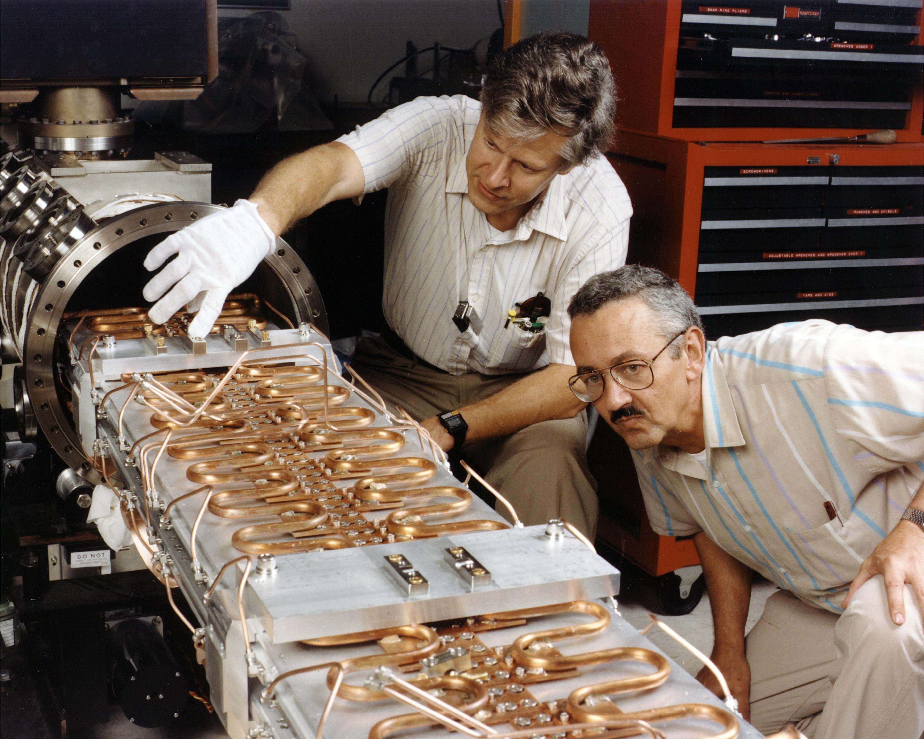 FERMI-LAB TECHNICIANS EXAMINING A STOCHASTIC COOLING CAVITY. THE TECHNICIANS ARE EXAMINING AND ADJUSTING A STOCHASTIC COOLING CAVITY IN THE ACCUMULATOR RING. THE ACCUMULATOR STORES ANTI-PROTONS IN PREPARATION FOR THEIR ULTIMATE COLLISION WITH PROTONS IN FERMI-LAB'S TEVATRON ACCELERATOR. For more information or additional images, please contact 202-586-5251.